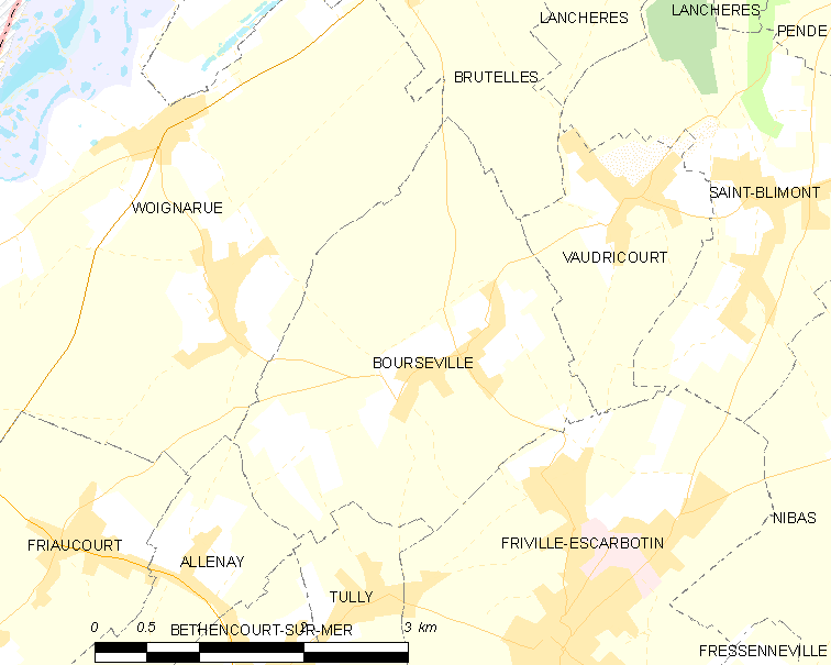 Map of French municipality Bourseville